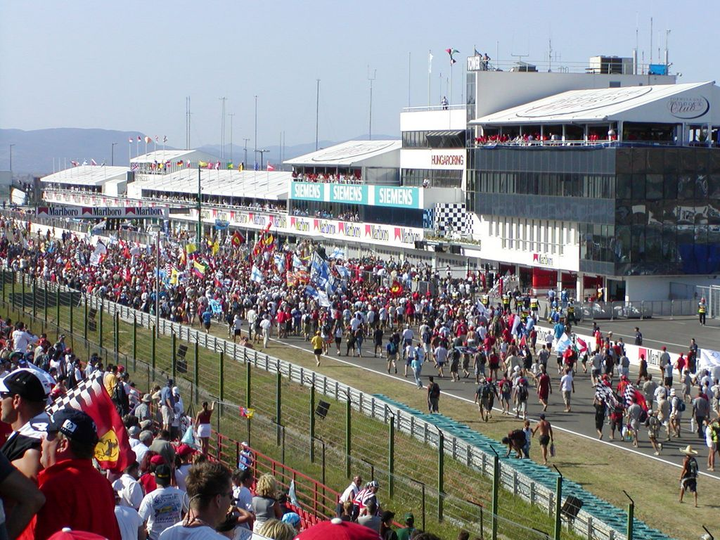 Fans on racetrack aftert the race at the 2003 Hungarian Grand Prix.